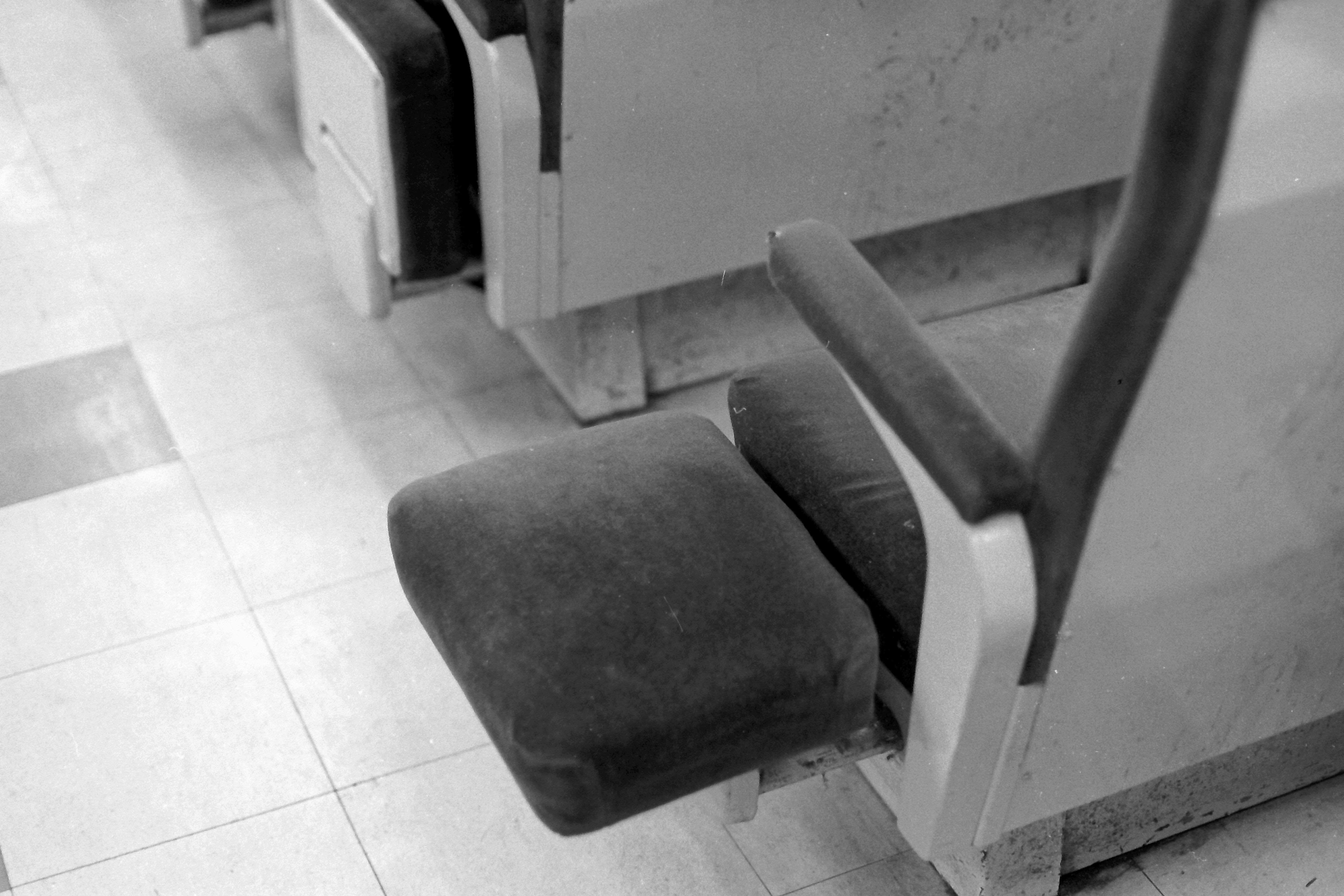 A folding sast on Awa-maru, a ferry boat owned and operated by JR Shikoku